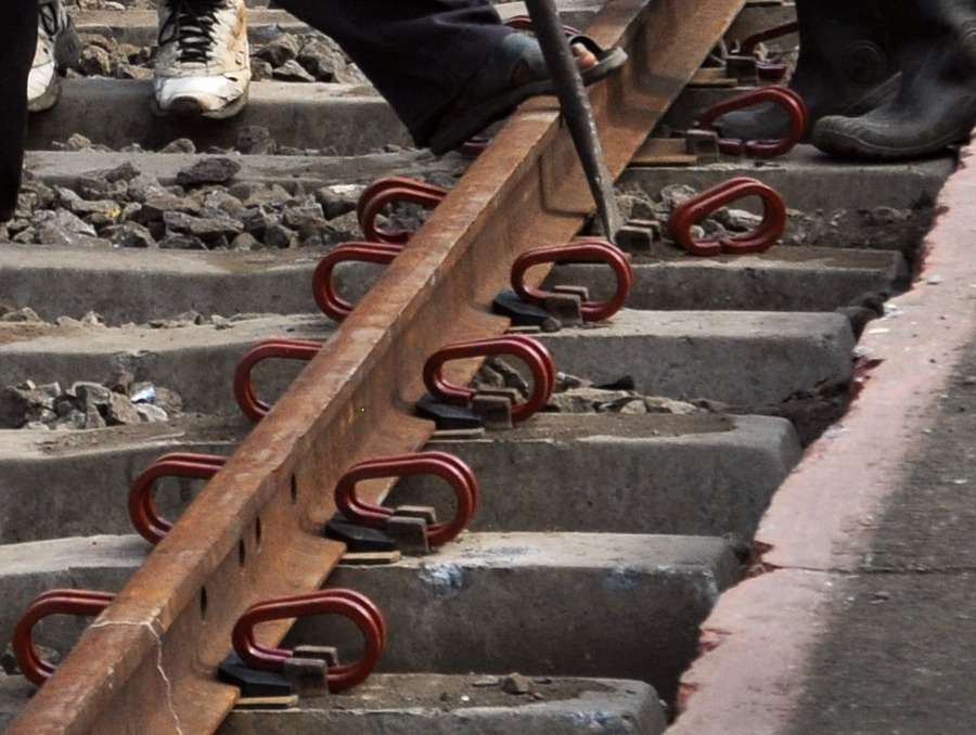 Leces train station in Probolinggo Regency, East Java, Indonesia. Rail fastener clip type DE.